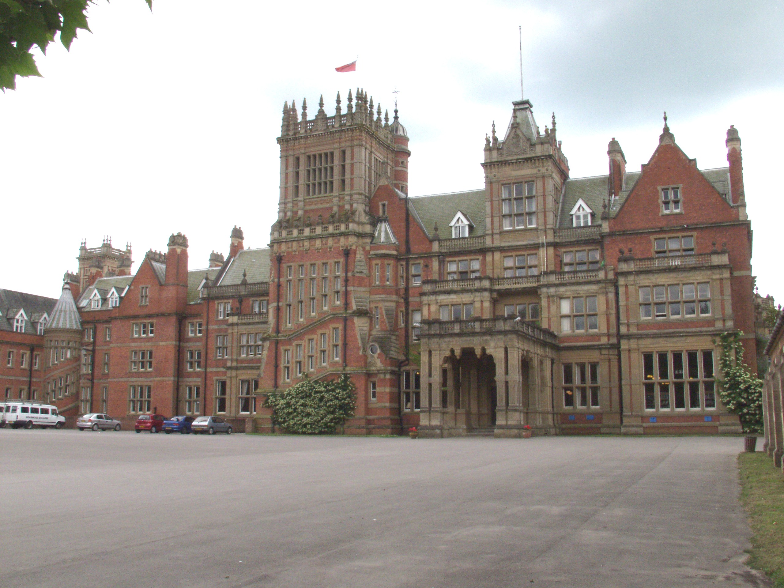 Bearwood Sindlesham. Built for the owner of The Times newspaper, designed by Robert Kerr and built between 1865 and 1869. Now a school.